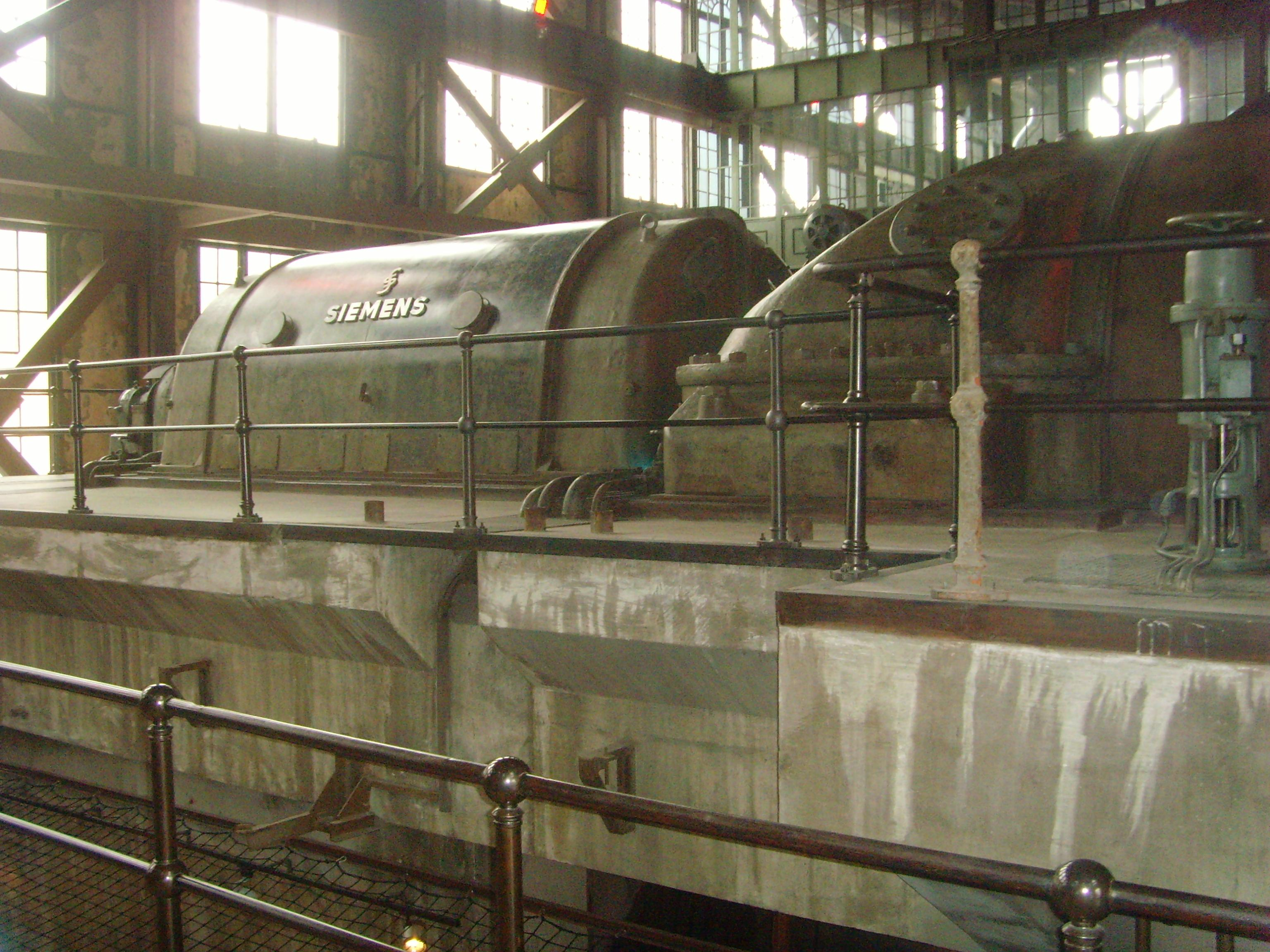 SantralIstanbul